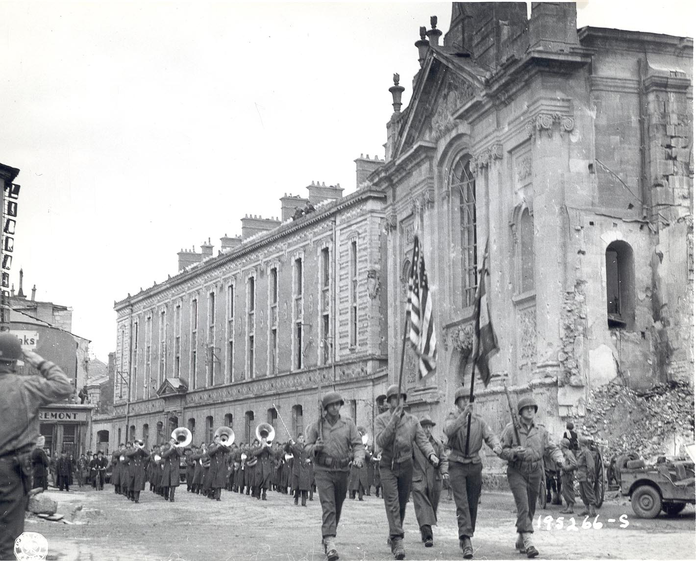 Enroute to National War Memorial for first appearance on continent . October, 1944.